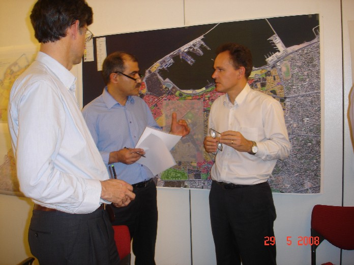 workshop sur Tripoli IAU 2008